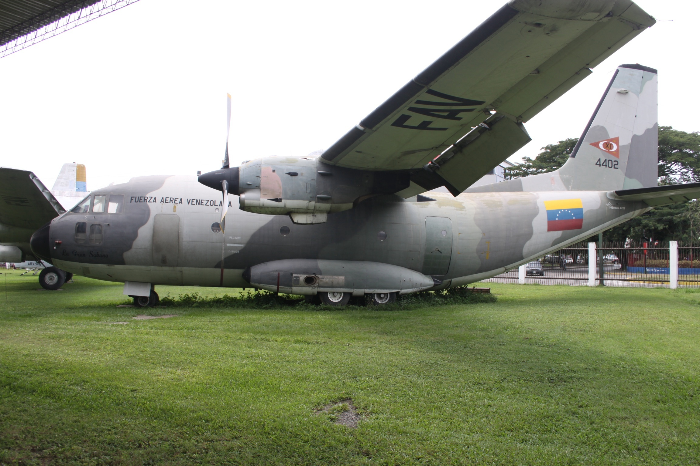 At Museo Aeronáutico de Maracay